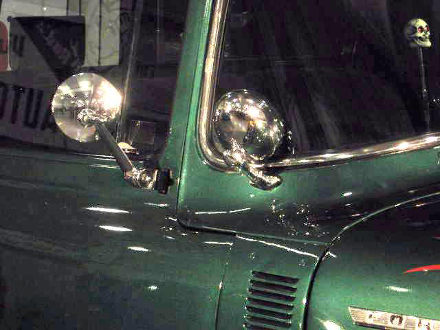 '56 F100 w Appleton spotlight, at local car show